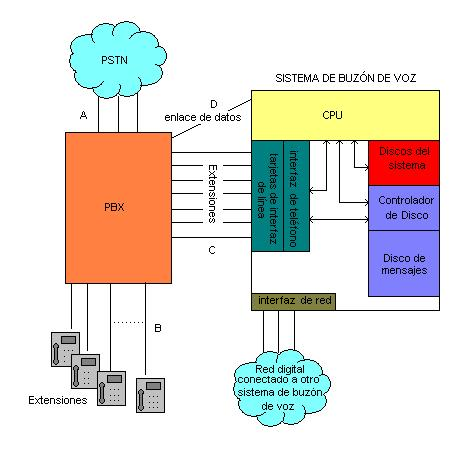 voicemail